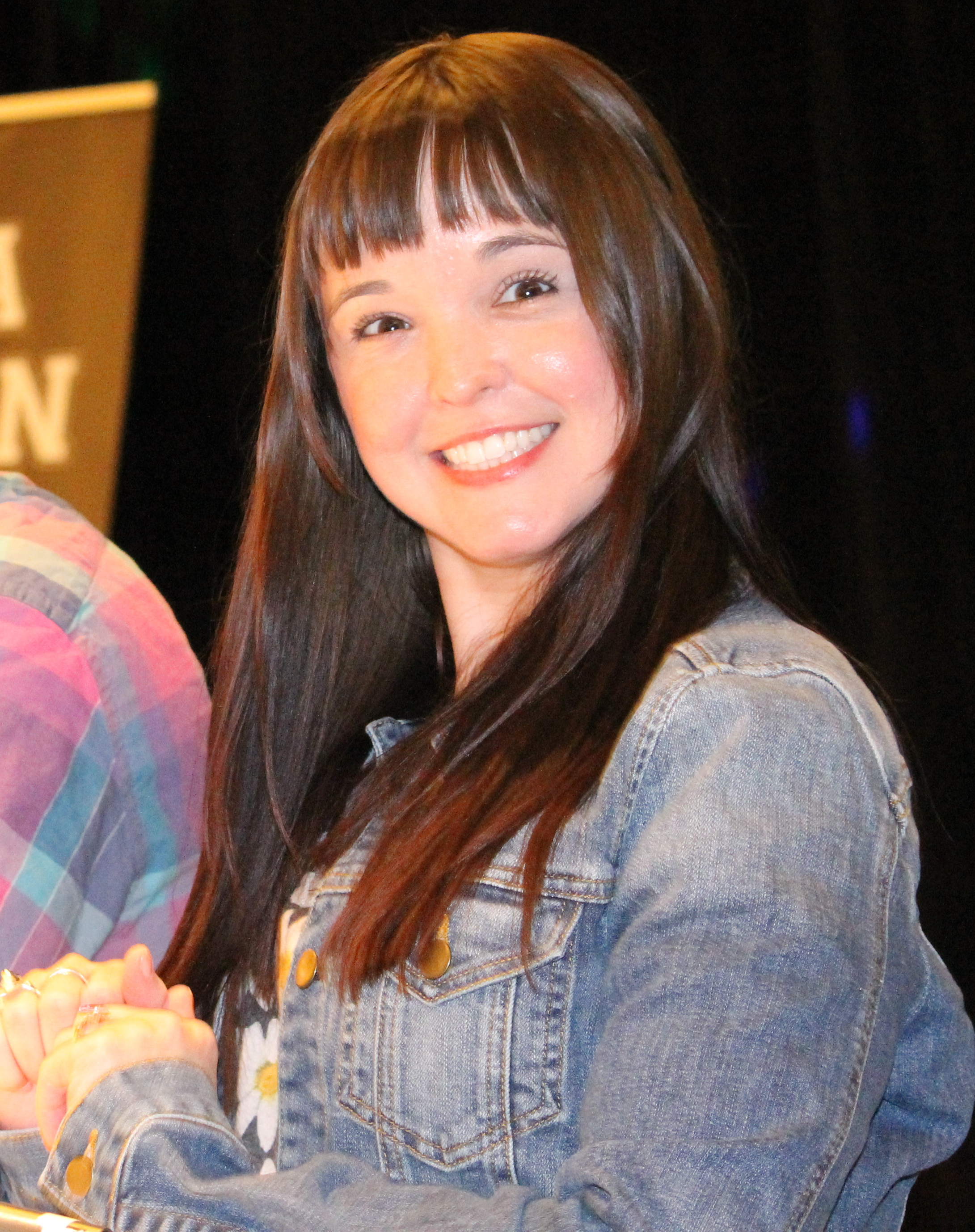 Jad Saxton in 2014